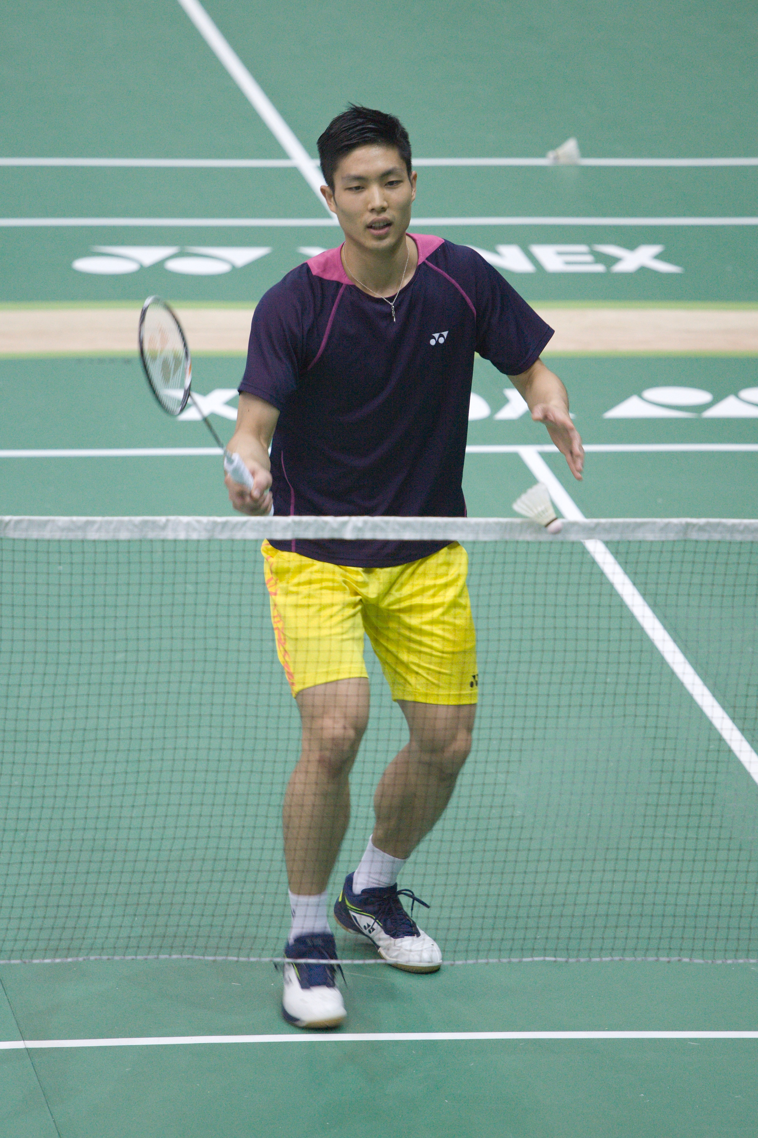 Yonex Chinese Taipei Open 2018 - Quarterfinal - Chou Tien-Chen vs LEE Cheuk Yiu